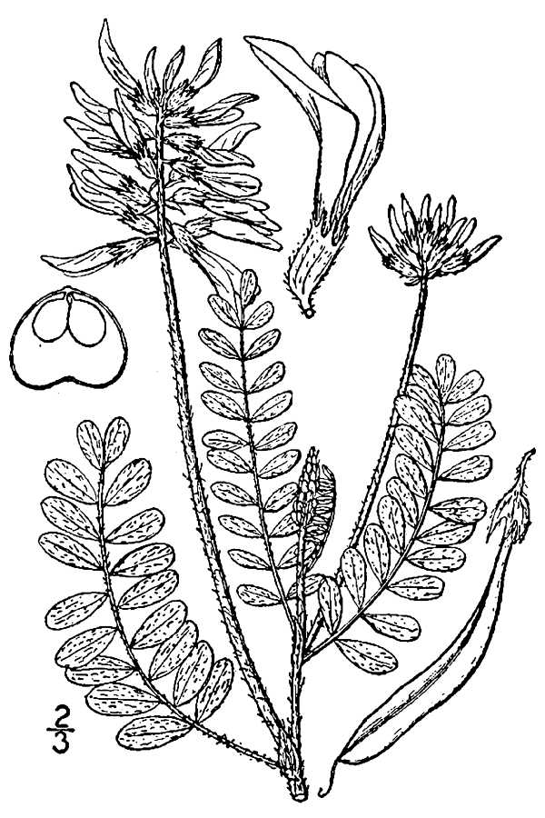 Drawing of a typical A. drummondii plant